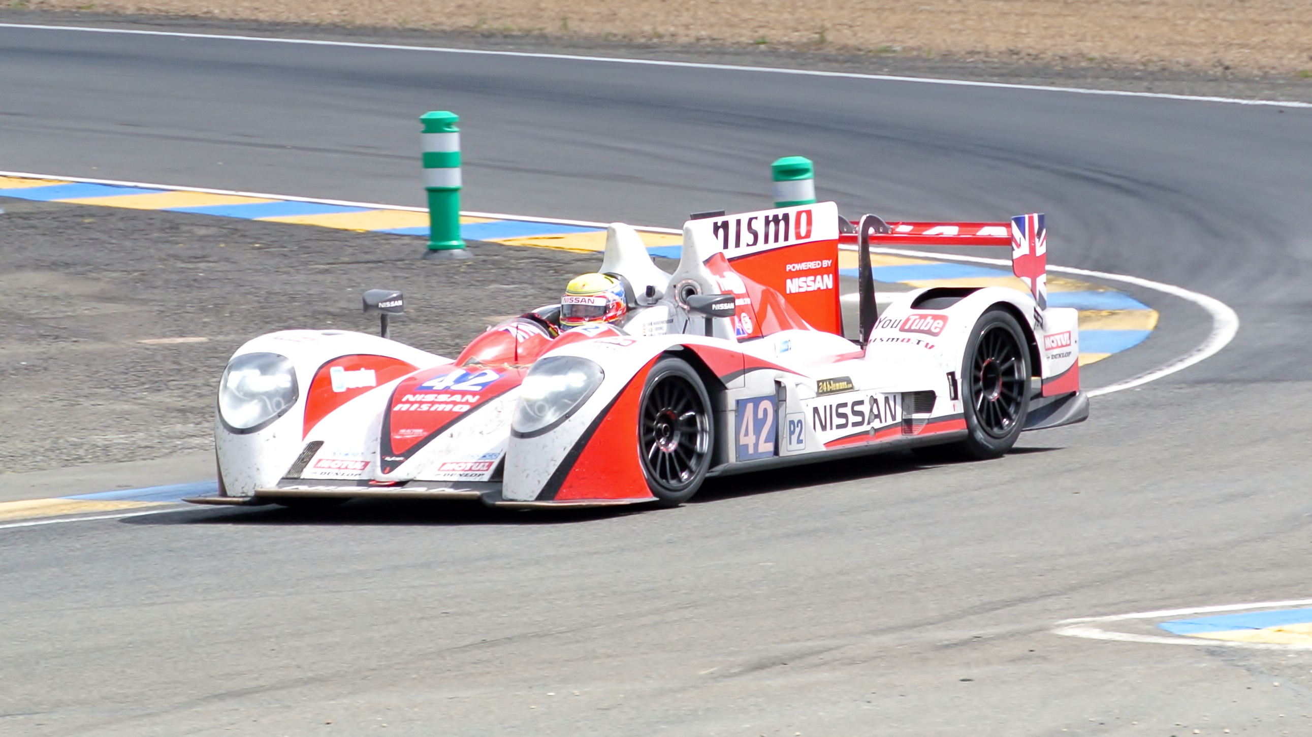 2013 Zytek Z11SN-Nissan LMP2 Le Mans series racing car